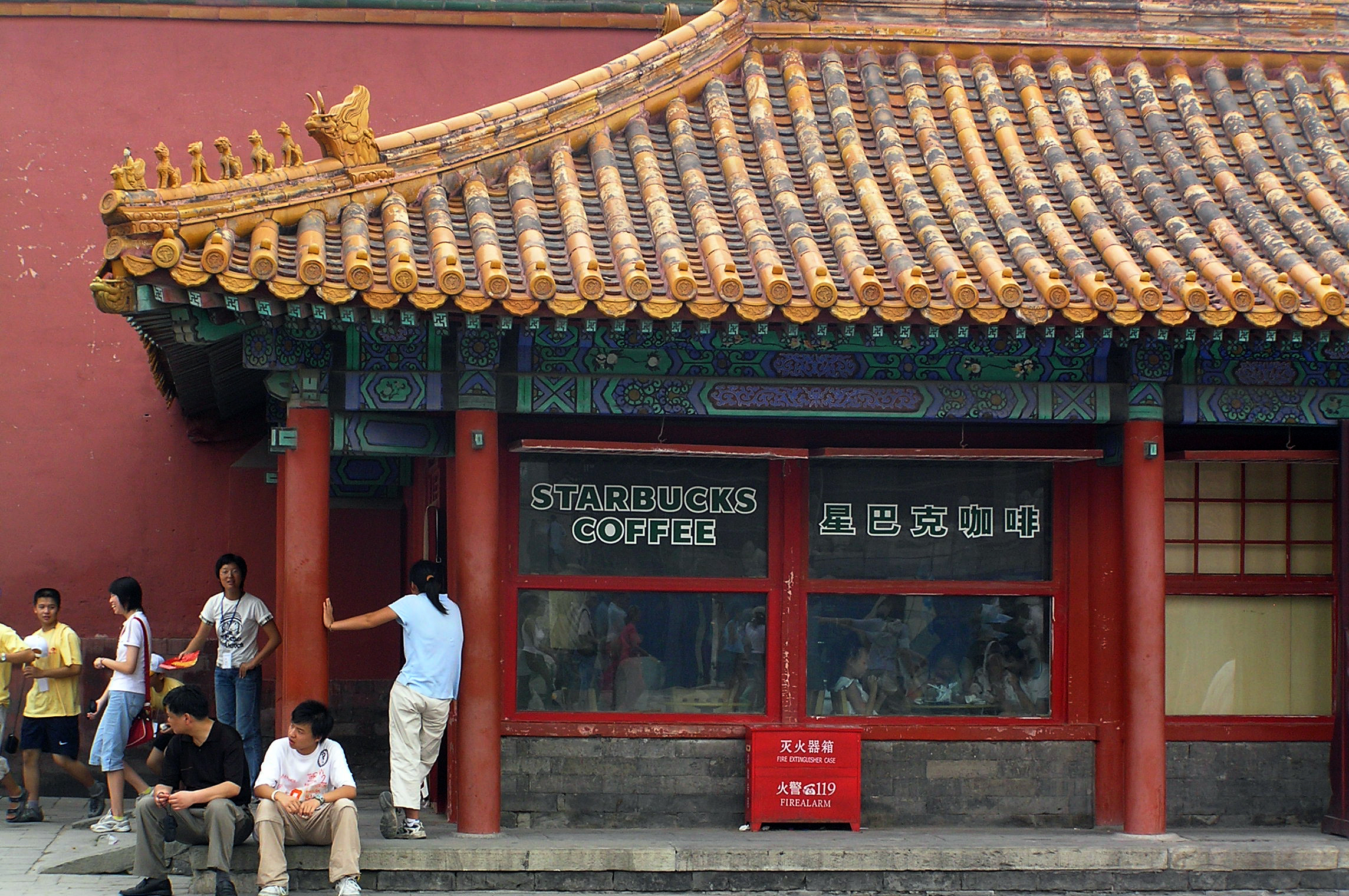 Starbucks at the Forbidden City (Beijing, China) Author: Mr. Tickle Date: 07/20, 2005